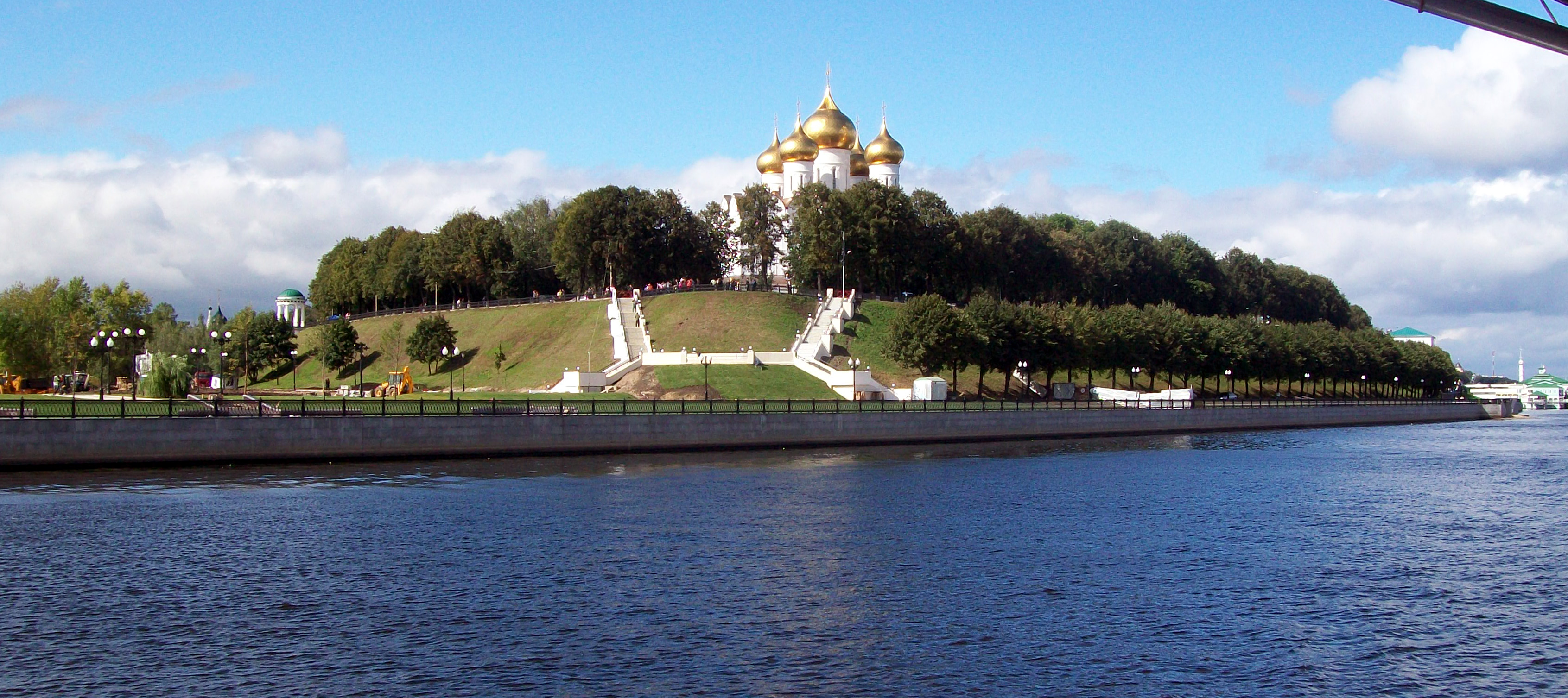 Yaroslavl. An arrow (a place of merge of Volga and Kotorosl)